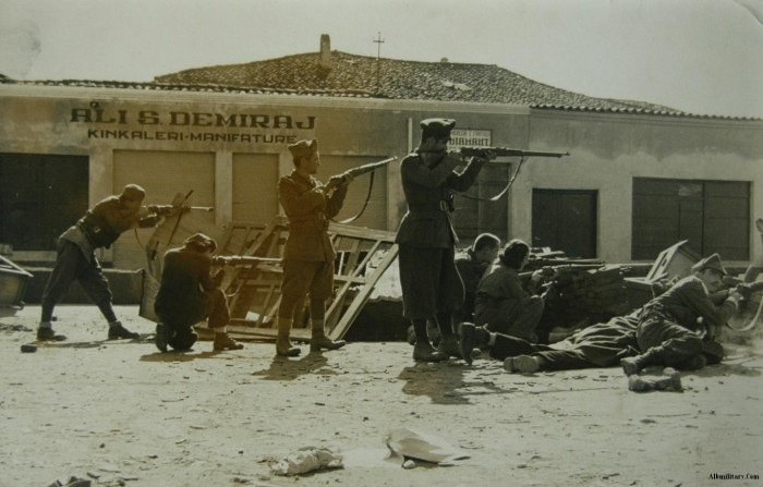 Communist partisans fighting in Tirana,1944